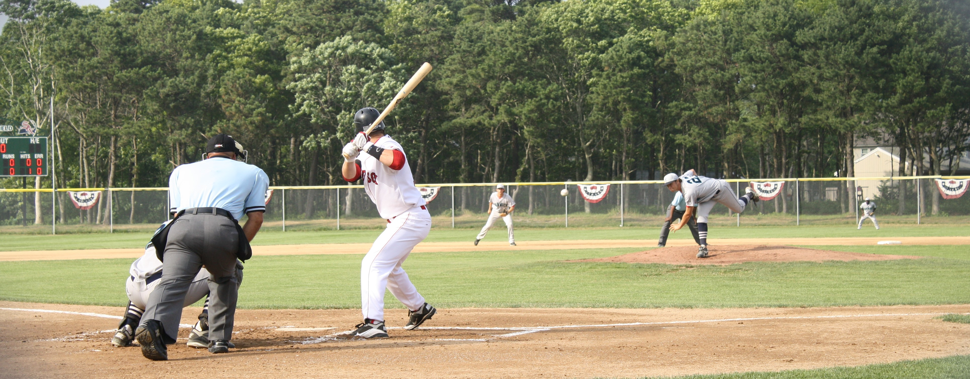 Game at Red Wilson Field, South Yarmouth, Massachusetts, 2011